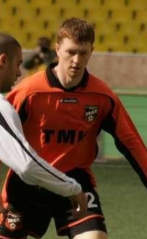 Mikhail Mysin as a player of FC Ural